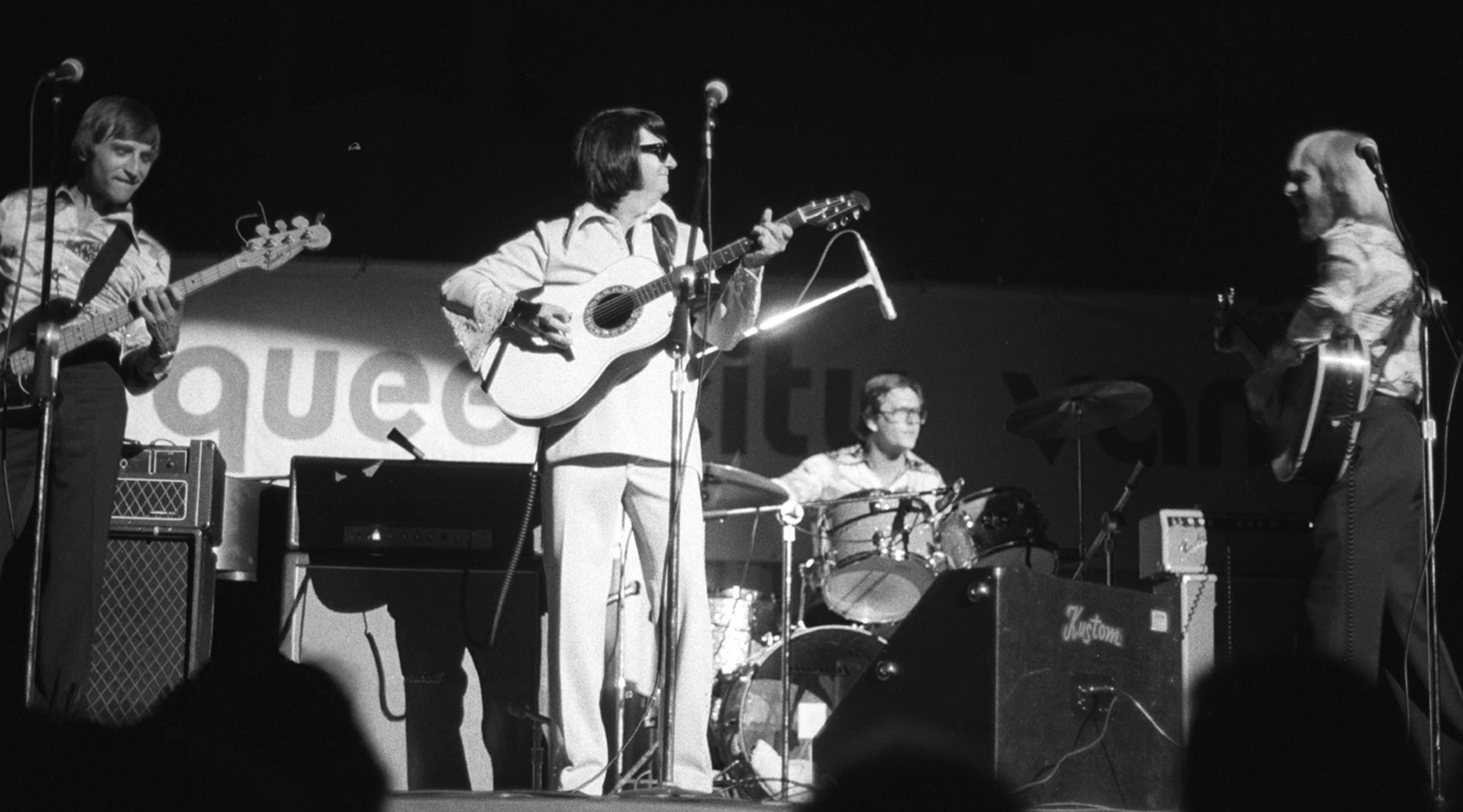 Photo of Roy Orbison at Cincinnati Gardens.